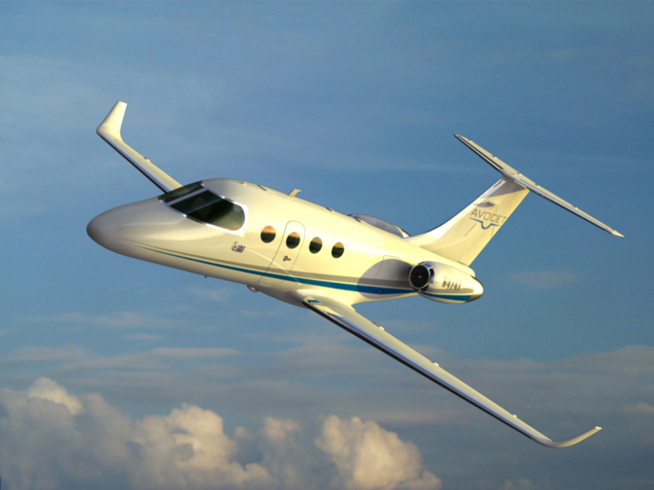 Avocet ProJet in flight.